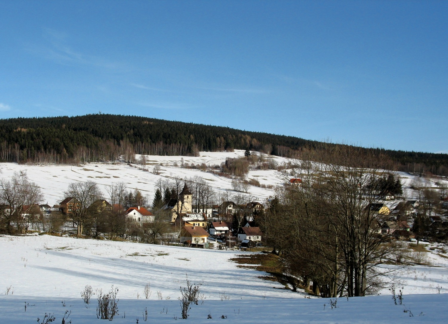 Libínské Sedlo - a village in the South Bohemian Region, Czech Republic Česky: Libínské Sedlo - místní část města Prachatice v Jihočeském kraji